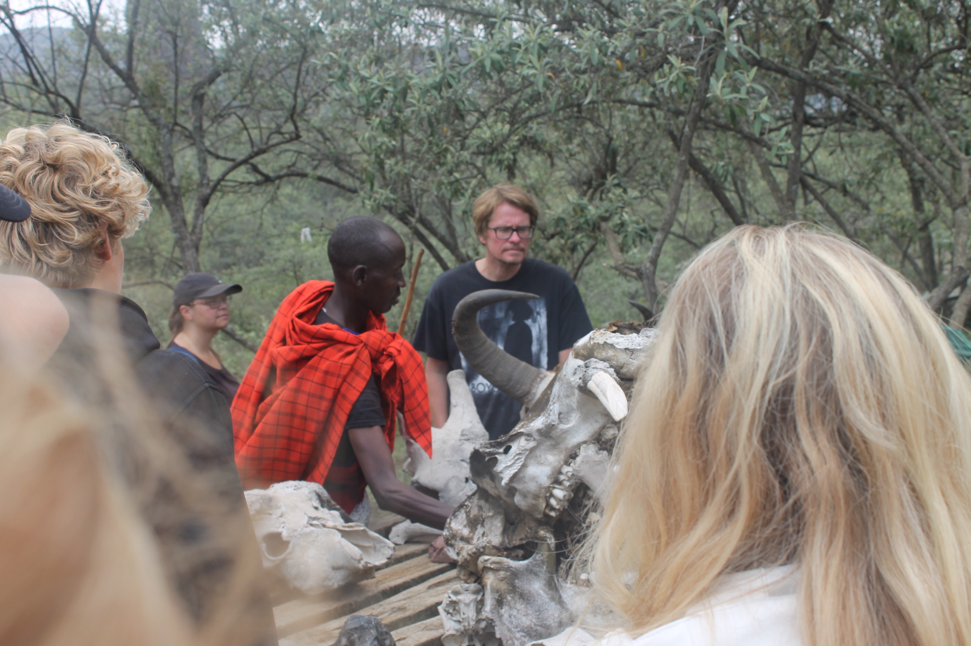 A masai guide showing a tourist group some animal skeletons in national park Hell's Gate. This is an image of "African people at work" from Kenya